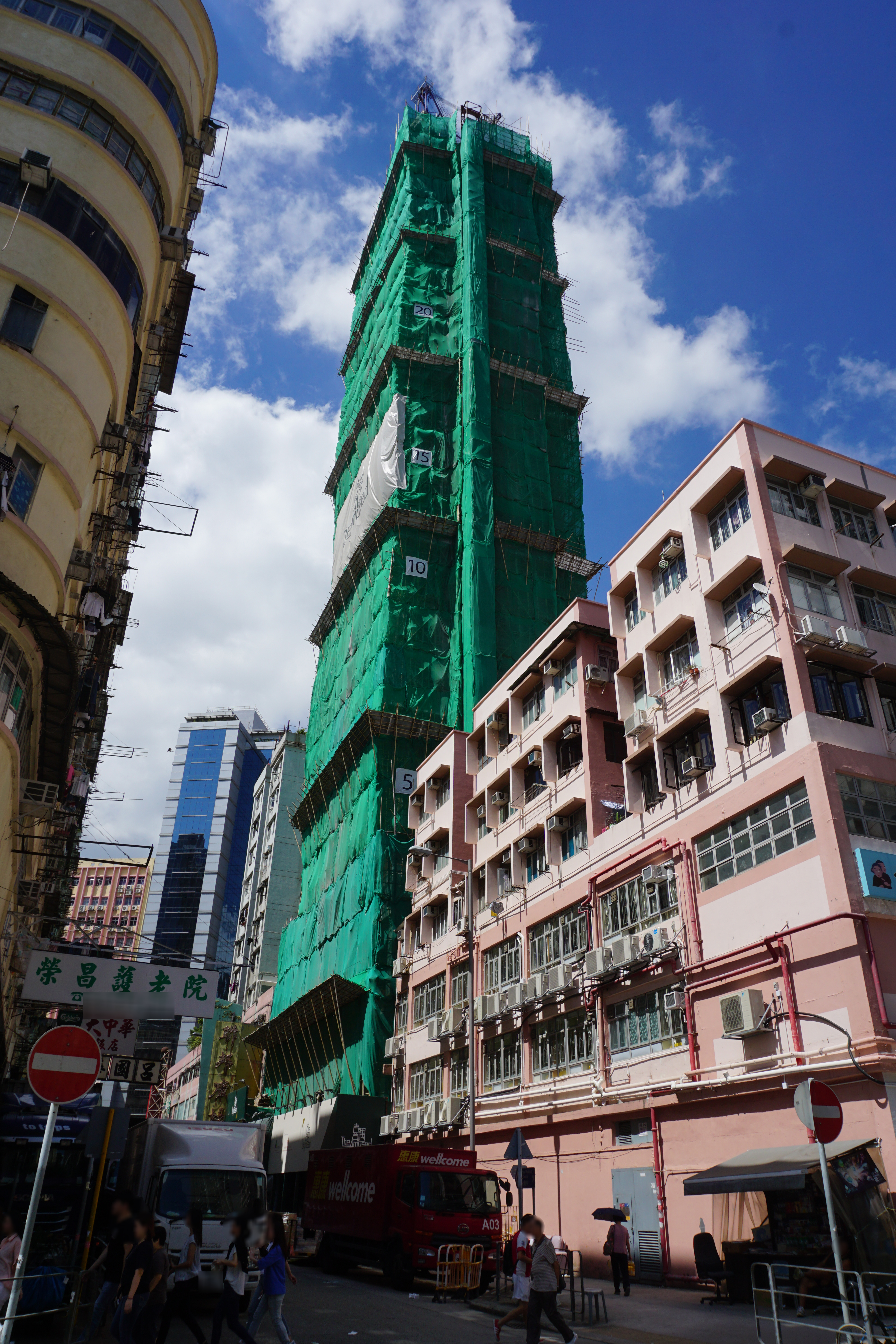 The Amused in Cheung Sha Wan, Hong Kong.